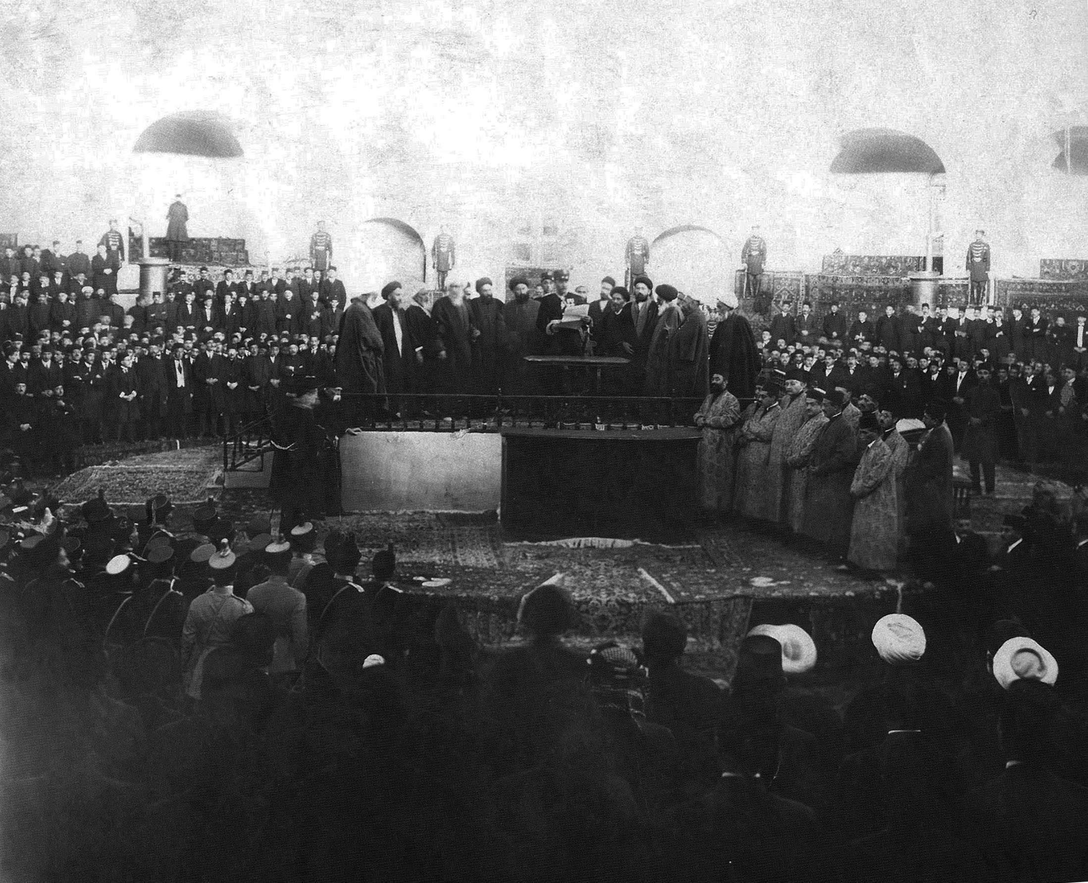 Prime Minister Reza Phlavi addressing the opening session of the Constituent assembly in Tekiyeh Dowlat 6 December 1925